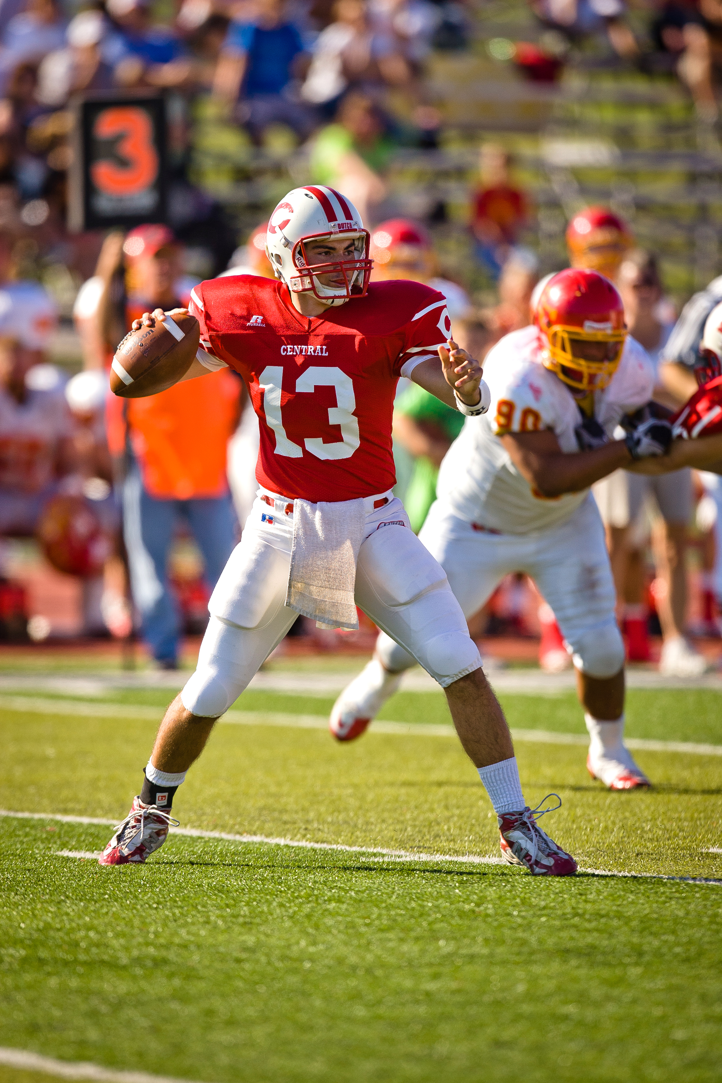 Pella, Iowa -- Central College Iowa October 9, 2010 football vs Simpson College. Photo by Dan L. Vander Beek